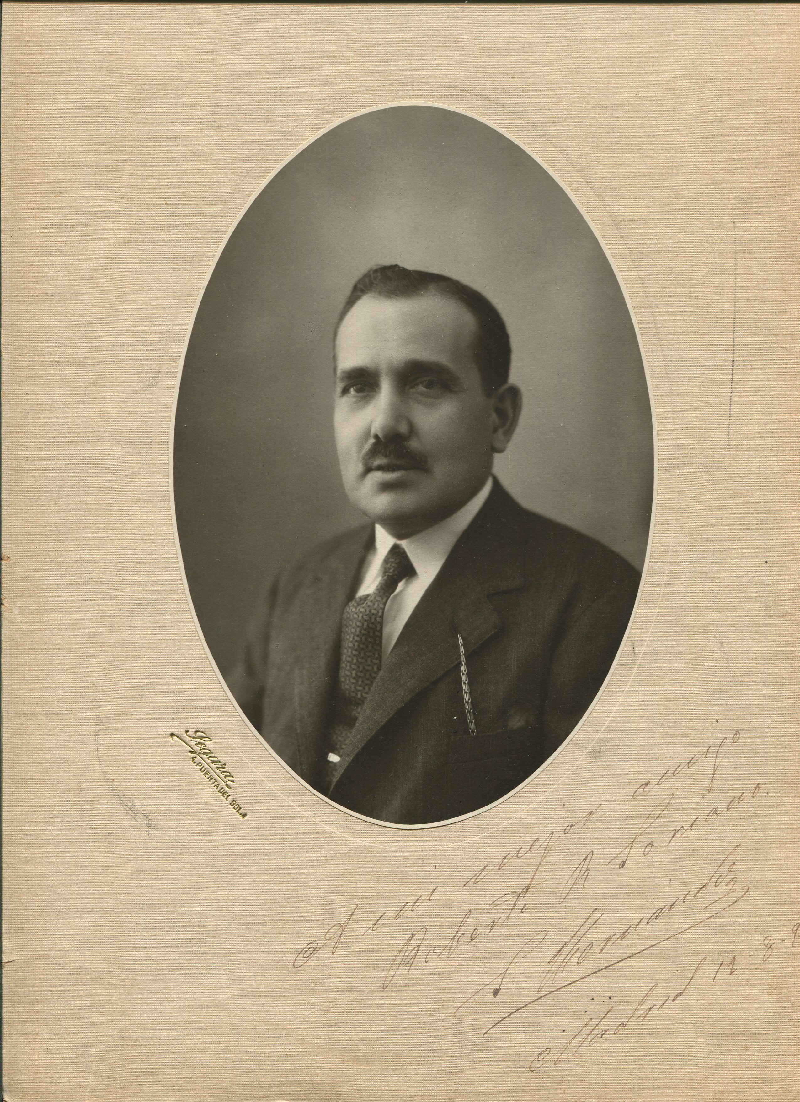 Dedication: To my best friend Roberto R Soriano. S Hernandez - 1927